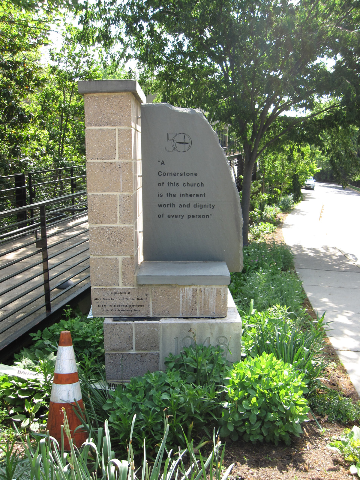 I am in the Washington, DC area for a week, on a combination business/pleasure trip. I am spending Sunday visiting a Unitarian congregation in Arlington, to visit a friend and make some more new ones! This lovely 50th Anniversary marker, erected in 1998, sums up the core belief of Unitarian Universalism, which I adopted as my own religion in 2007.